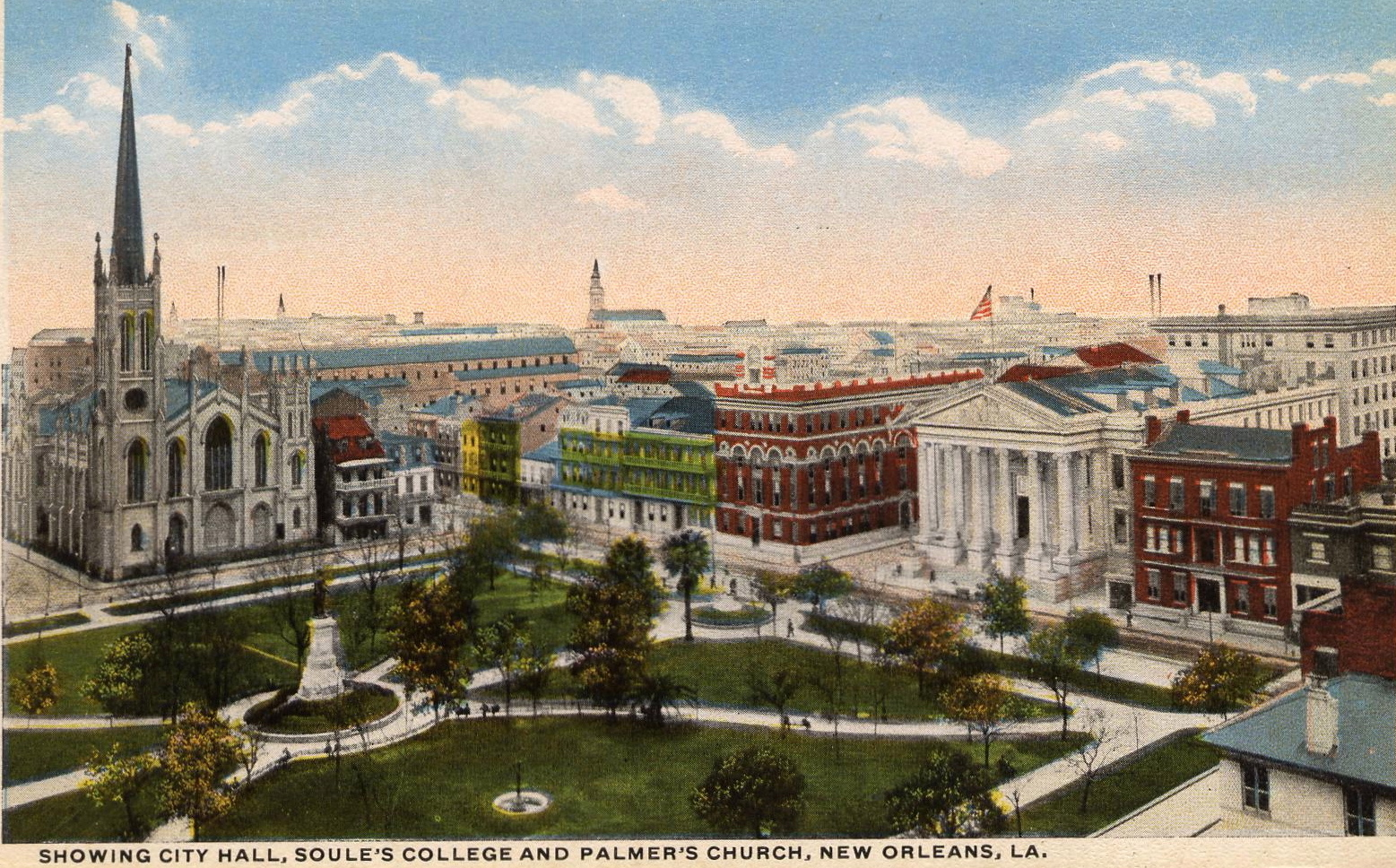 Lafayette Square, New Orleans, early 20th century. "Showing City Hall, Soule's College and Palmer's Church". From left to right "Palmer's Church" was the old First Presbyterian Church, which was destroyed by the New Orleans Hurricane of 1915. Most of the other buildings visible are still standing, including the Soule College building (the red brick at center facing the square) and City Hall (now called Gallier Hall, as the City Hall has been relocated elsewhere, the neo-Classical white building facing the square right of center).